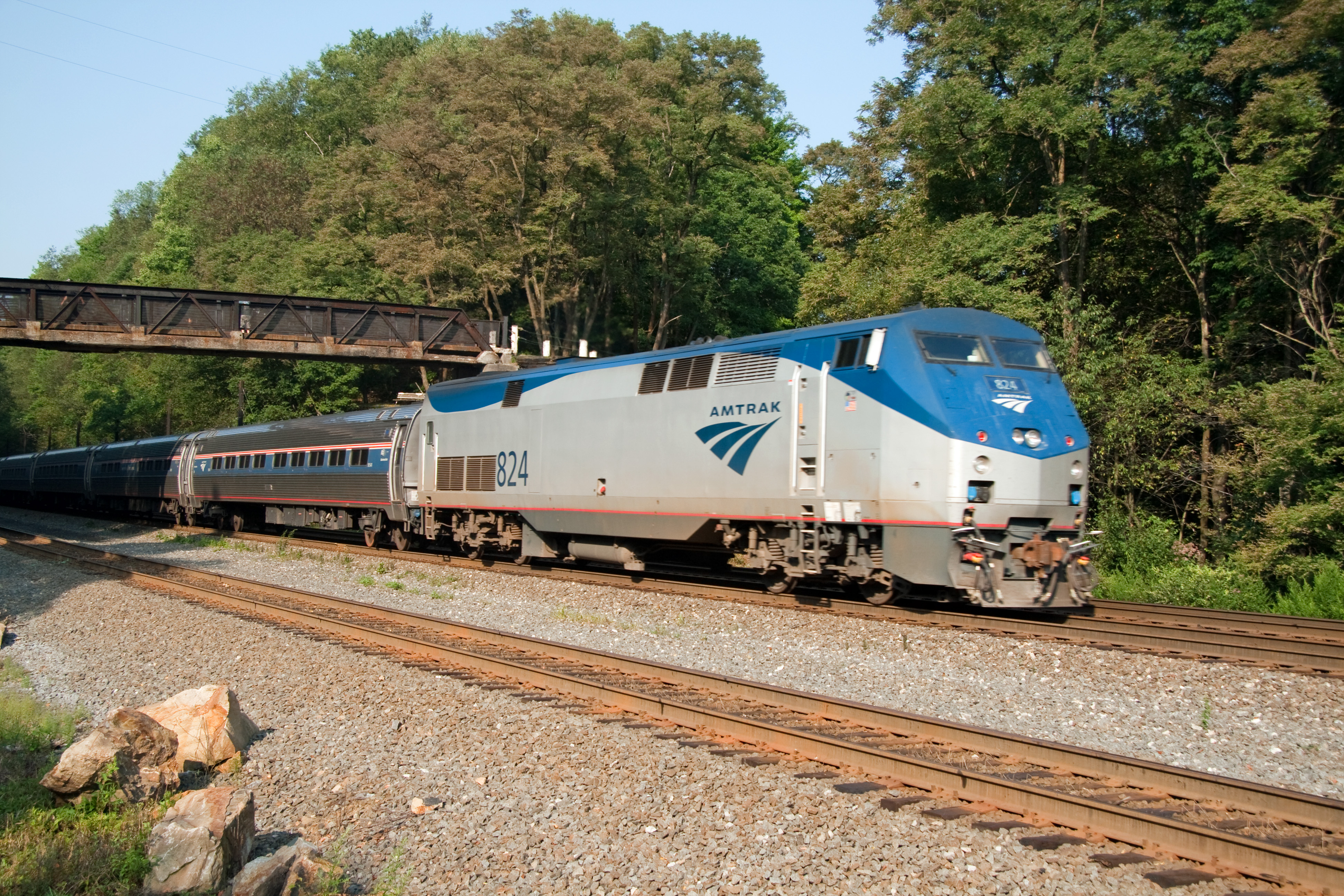 Amtrak train 42 "The Pennsylvanian" is led by engine 824 on a Friday morning in Cassandra, PA. The Pennsylvanian travels daily between New York City and Pittsburgh. When this picture was taken the train was only a few minutes from the famous Horseshoe Curve.